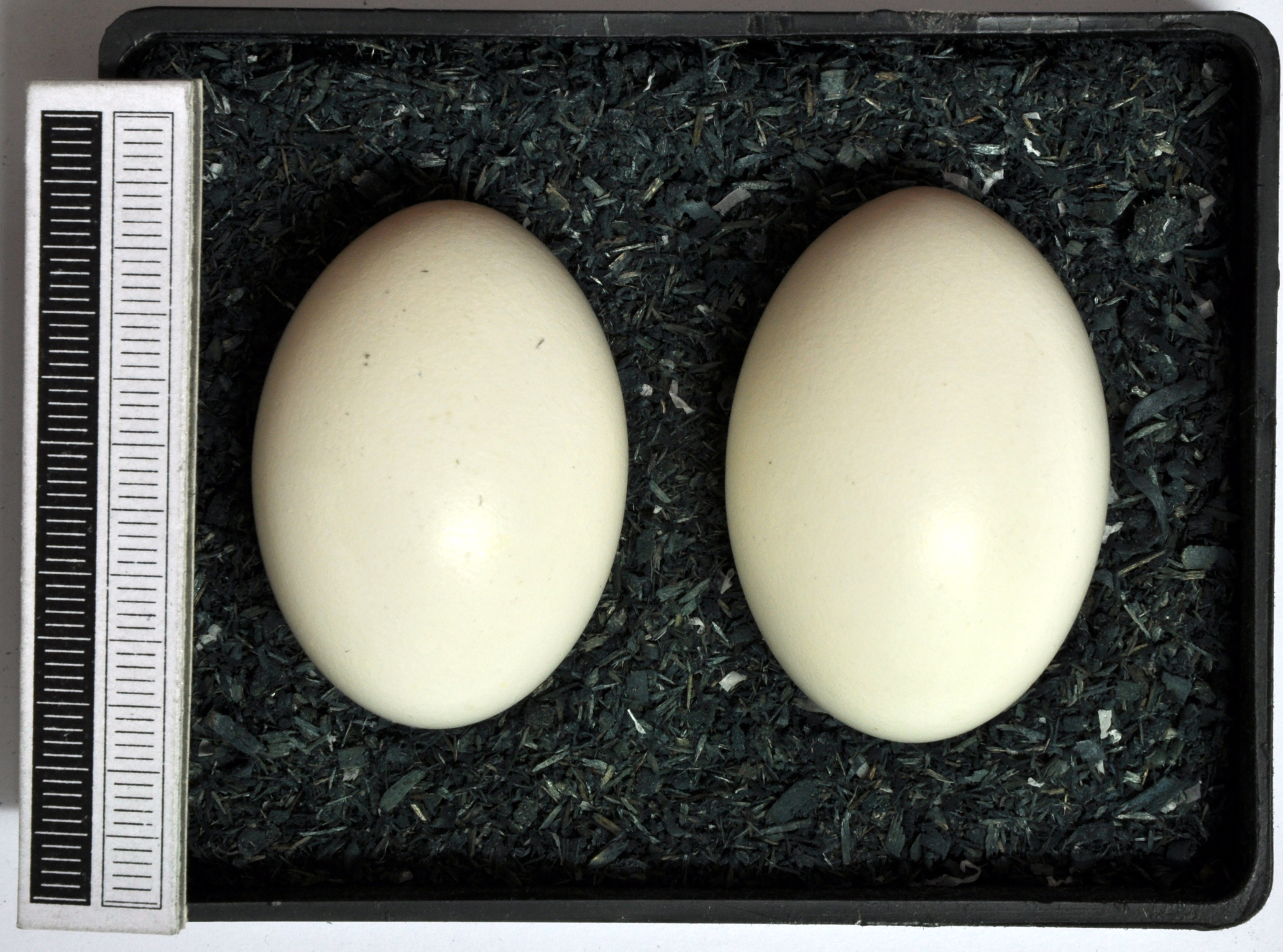 Common wood pigeon Columba palumbus, egg, Coll. Museum Wiesbaden, Origin: Ismaning, Bavaria, 20.05.1971, leg. W. Abelmann